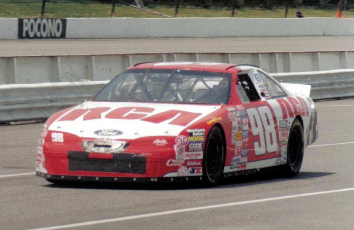 NASCAR driver John Andretti at Pocono in 1997.